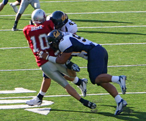 California Golden Bears at Washington State Cougars in 2006. I own the site, I own the image, and I took the photograph. I release the use of the image under the GFDL. Cgb78 talk 13:53, 30 September 2007